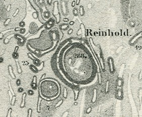 Detail of Map 06 of the maps of the Moon by Wilhelm Gotthelf Lohrmann edited by Johann Friedrich Julius Schmidt. This is the crater Reinhold.